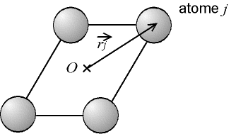 shape factor: interferences of waves scattered by the atoms inside the cell.